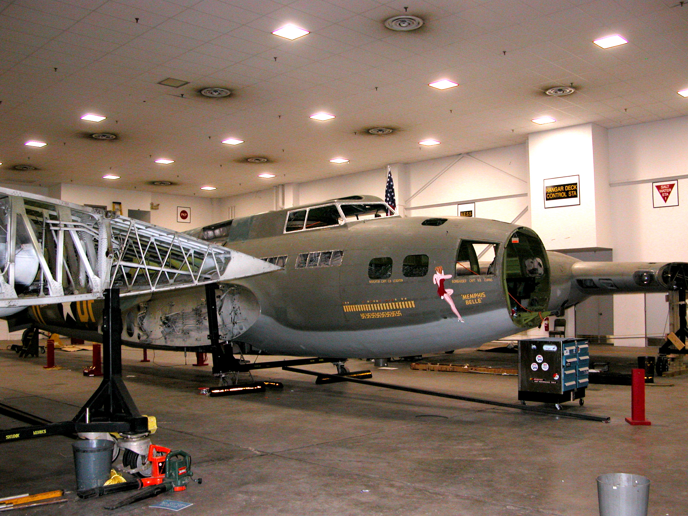 Naval Support Activity Mid-South (July 11, 2003) – The Memphis Belle B-17 "Fly Fortress" stands disassembled in its hangar across from Naval Support Activity Mid-South, where volunteer mechanics, mainly employees of Federal Express, come in on weekends to begin the long task of refurbishing the aircraft. The Memphis Belle is one of the first B-17 crews to complete 25 daylight bombing raids over Germany and occupied Europe during WW II.